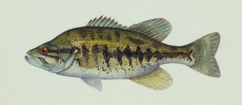 Suwannee bass (Micropterus notius). Drawing by Duane Raver.